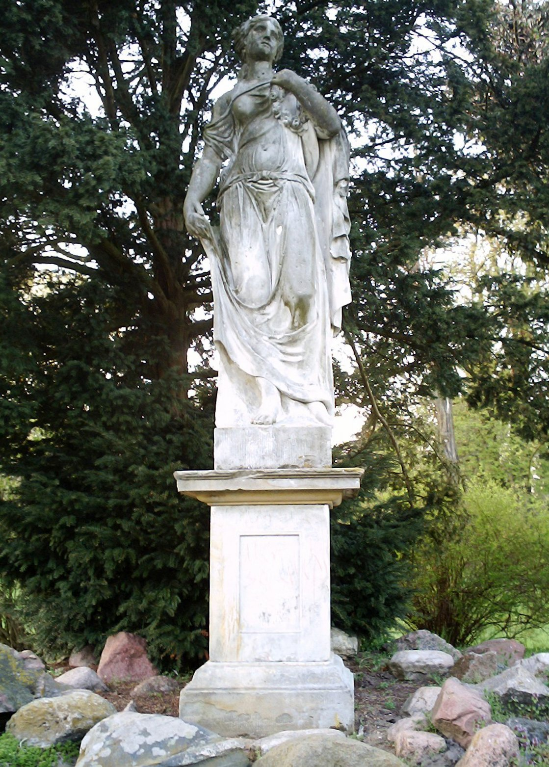 Statue in the garden of the Castle of Karlsburg; Germany, West-Pommerania